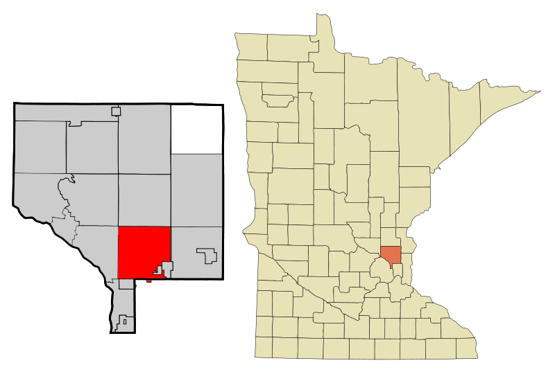 This map shows the incorporated and unincorporated areas in Anoka County, highlighting Blaine in red. This file has been updated to reflect the recent incorporation of new municipalities.